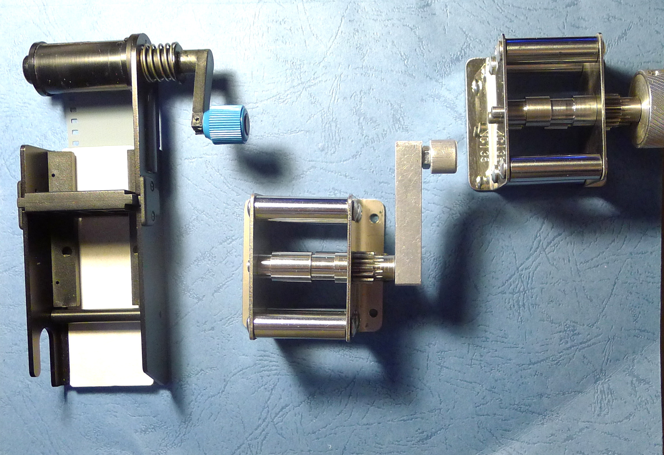 Minox slitter and roller slitter for Minox format, roller slitter for 16mm and Minox formats